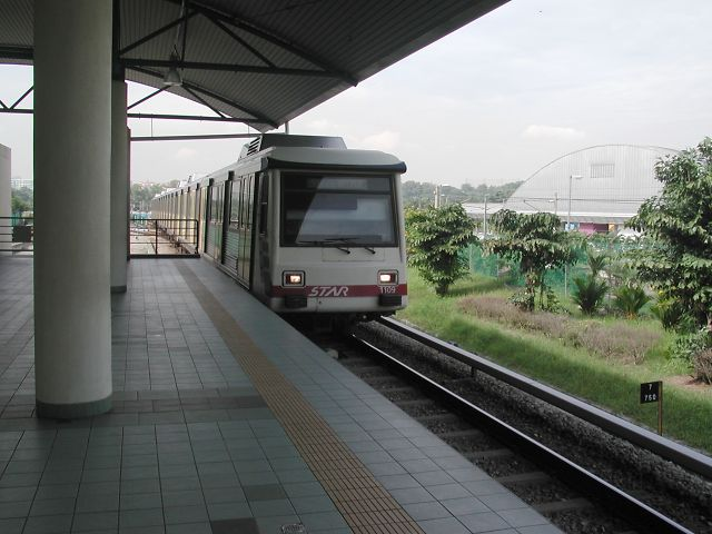 An Ampang Line train arriving at the Bandar Tasik Selatan station.